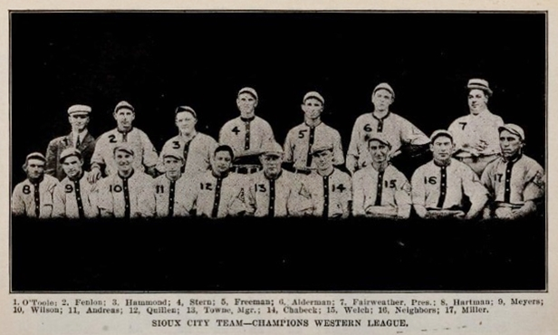 The 1910 Sioux City Packers, a minor league baseball team from Sioux City, Iowa